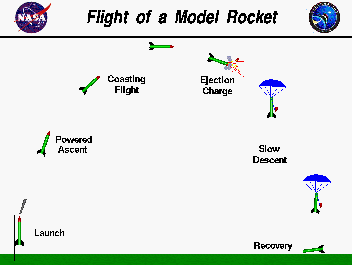 Diagram showing the flight stages of a model rocket.